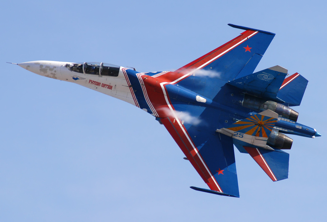 Sukhoi Su-27UB fighter-trainer at Kubinka airbase